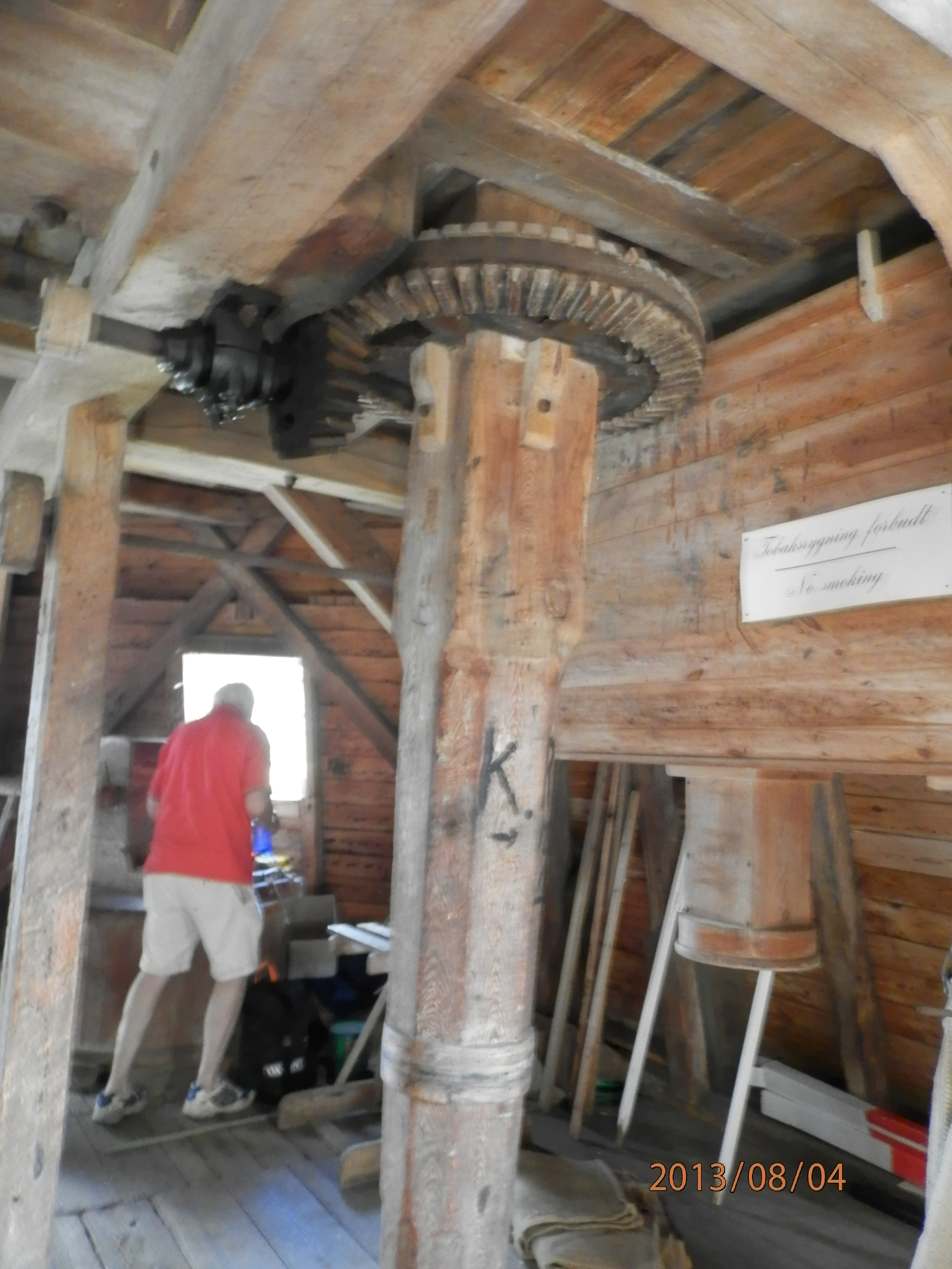 Inside of a windmill located in Karlebo, Denmark